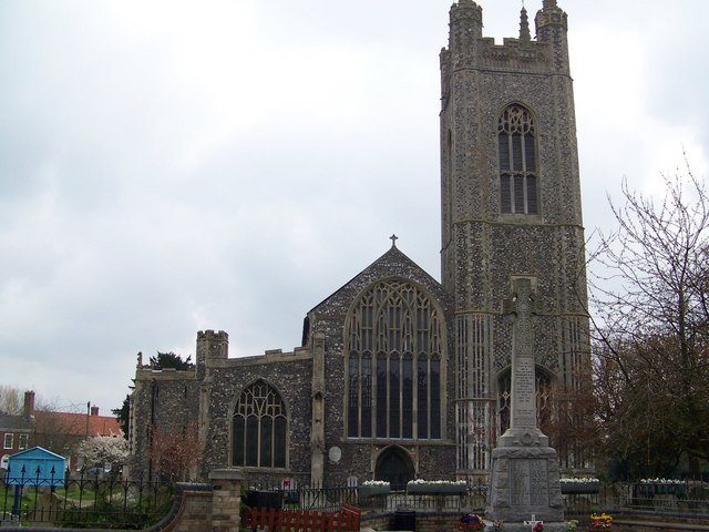 The Church of St Mary in Bungay, Suffolk, England. The medieval church forms with the adjacent ruins a Grade I listed building.